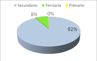 Economía por Sectores